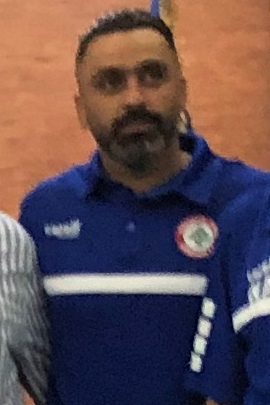 Wahid El Fattal at press conference